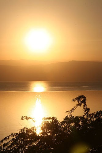 Sunset on the Dead Sea, 2005. Taken by Rachelle Anne Vergara